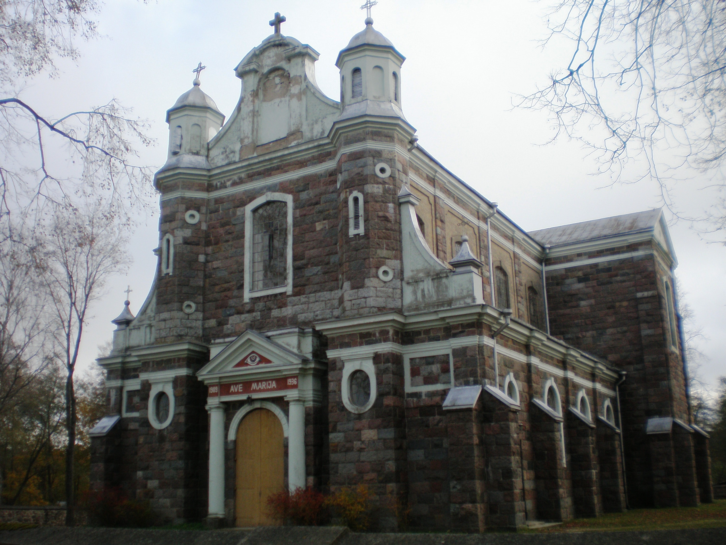 The church of Gegužinė